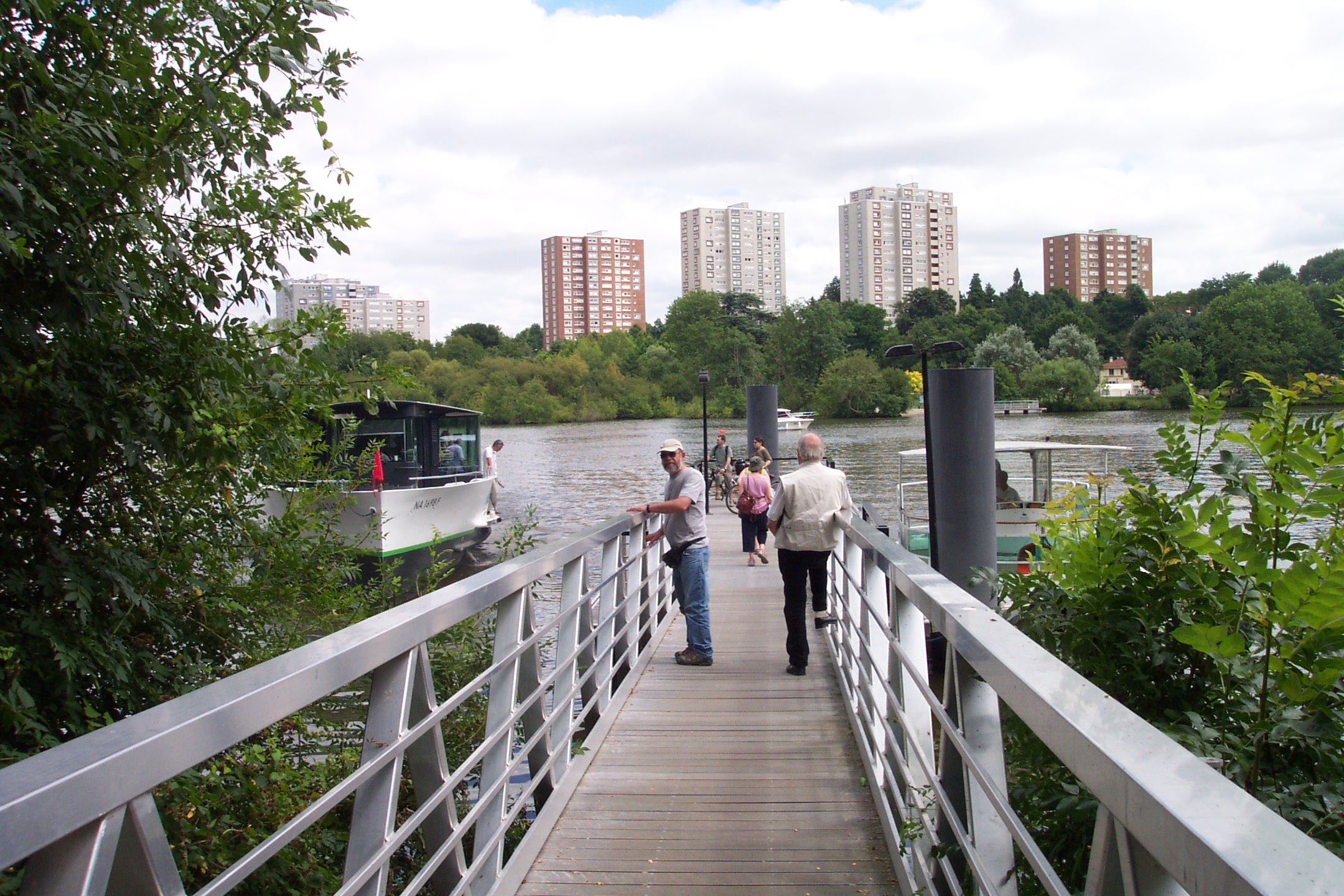 The Petit Port/Facultés in Nantes, France. Two Navibus boats are approching or at the jetty. To the left is the Jules Verne, used on the Navibus Erdre service. To the right is the Mouette, used on the Navibus Passeur de l'Erdre service. For more information, see the Wikipedia article Navibus.